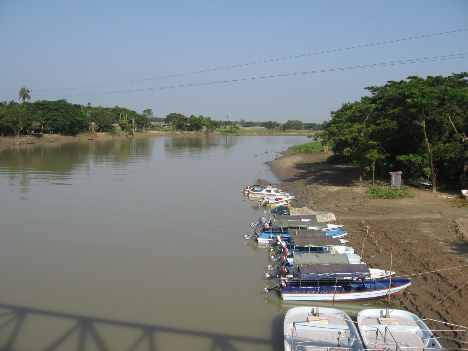 Own picture